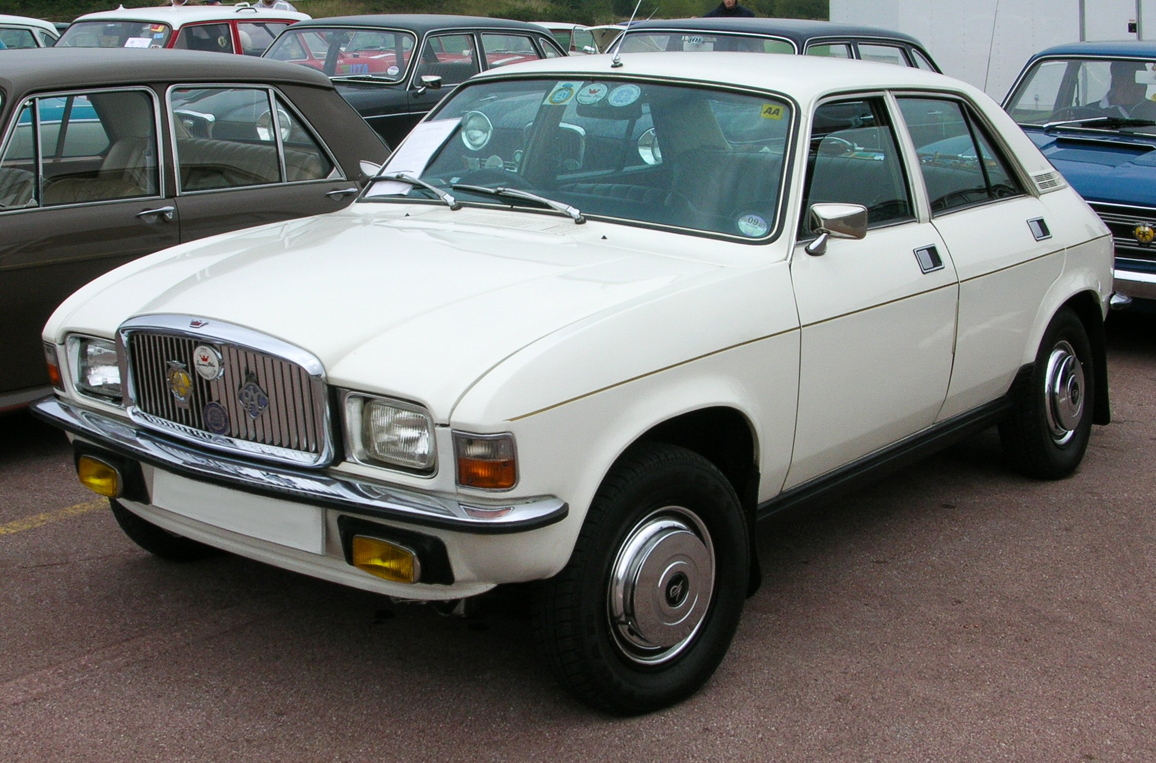 A 1977 Vanden Plas 1500. Photographed at the Alec Issigonis centenary rally at the Heritage Motor Centre, Gaydon, UK.